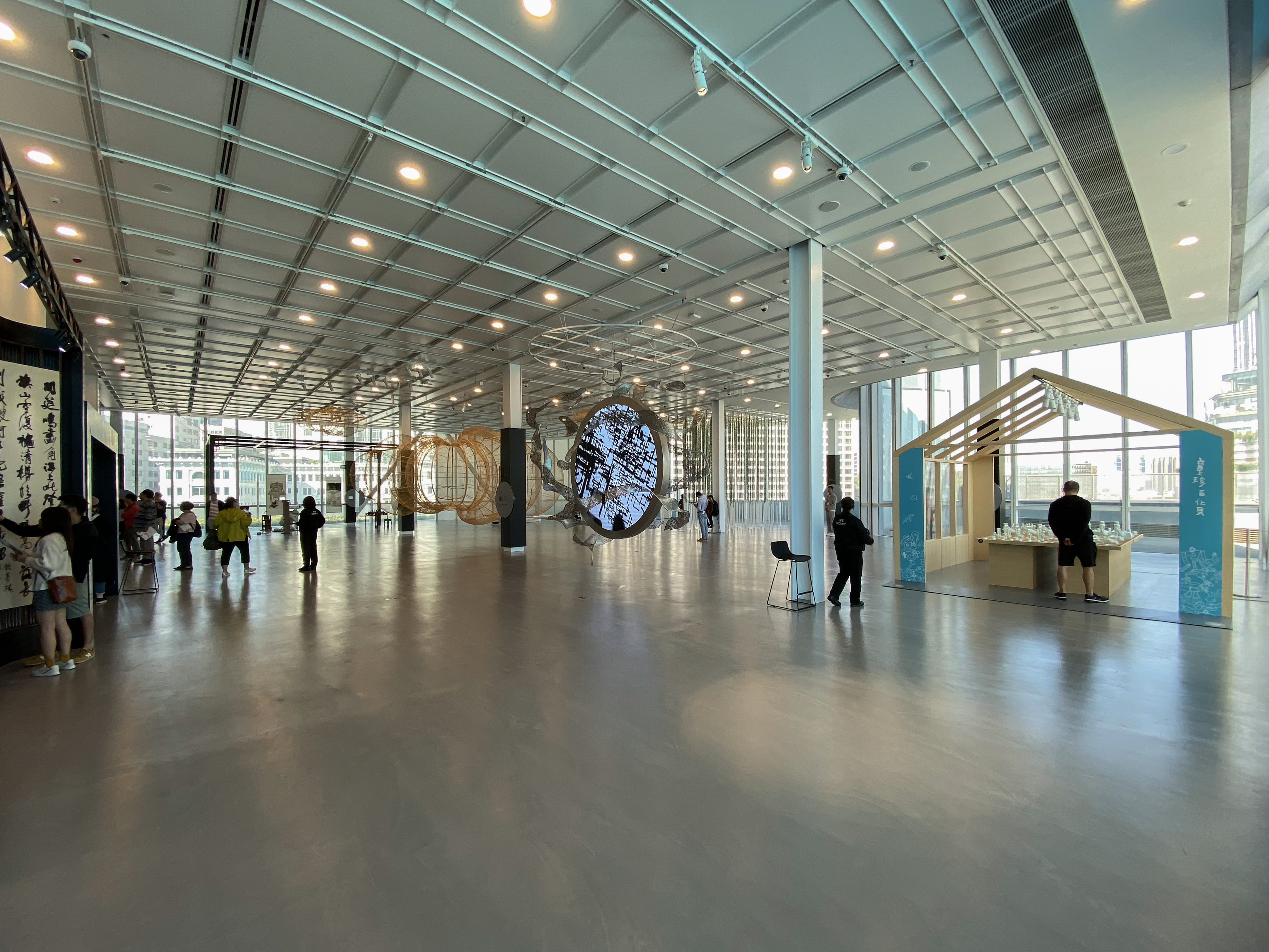 Hong Kong Museum of Art Level 5 The Lab